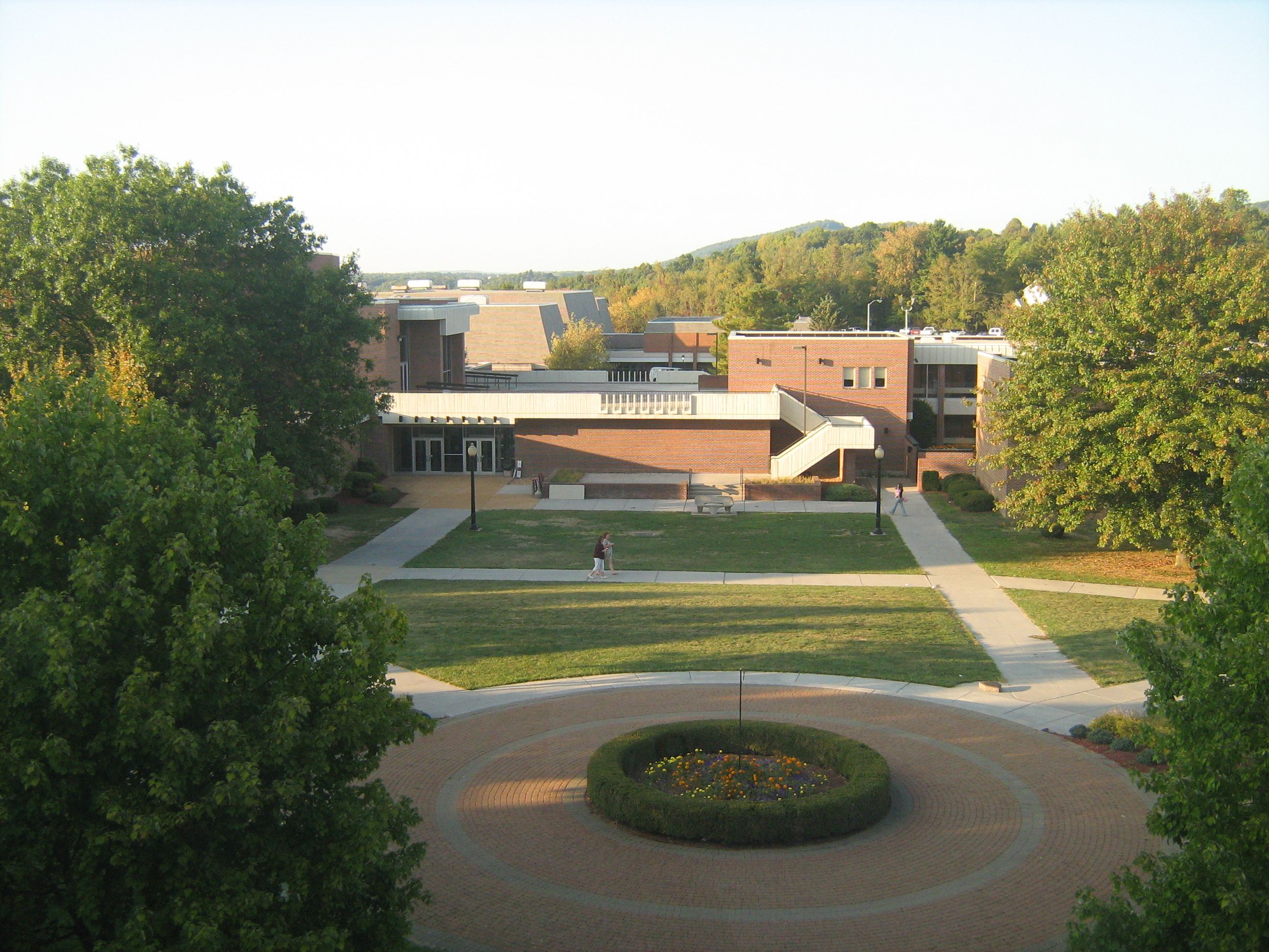 Concord University - Art Building (on right) Theatre (on left).